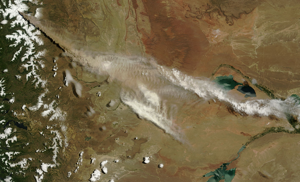 Eruption of Copahue volcano, Chile (morning overpass)